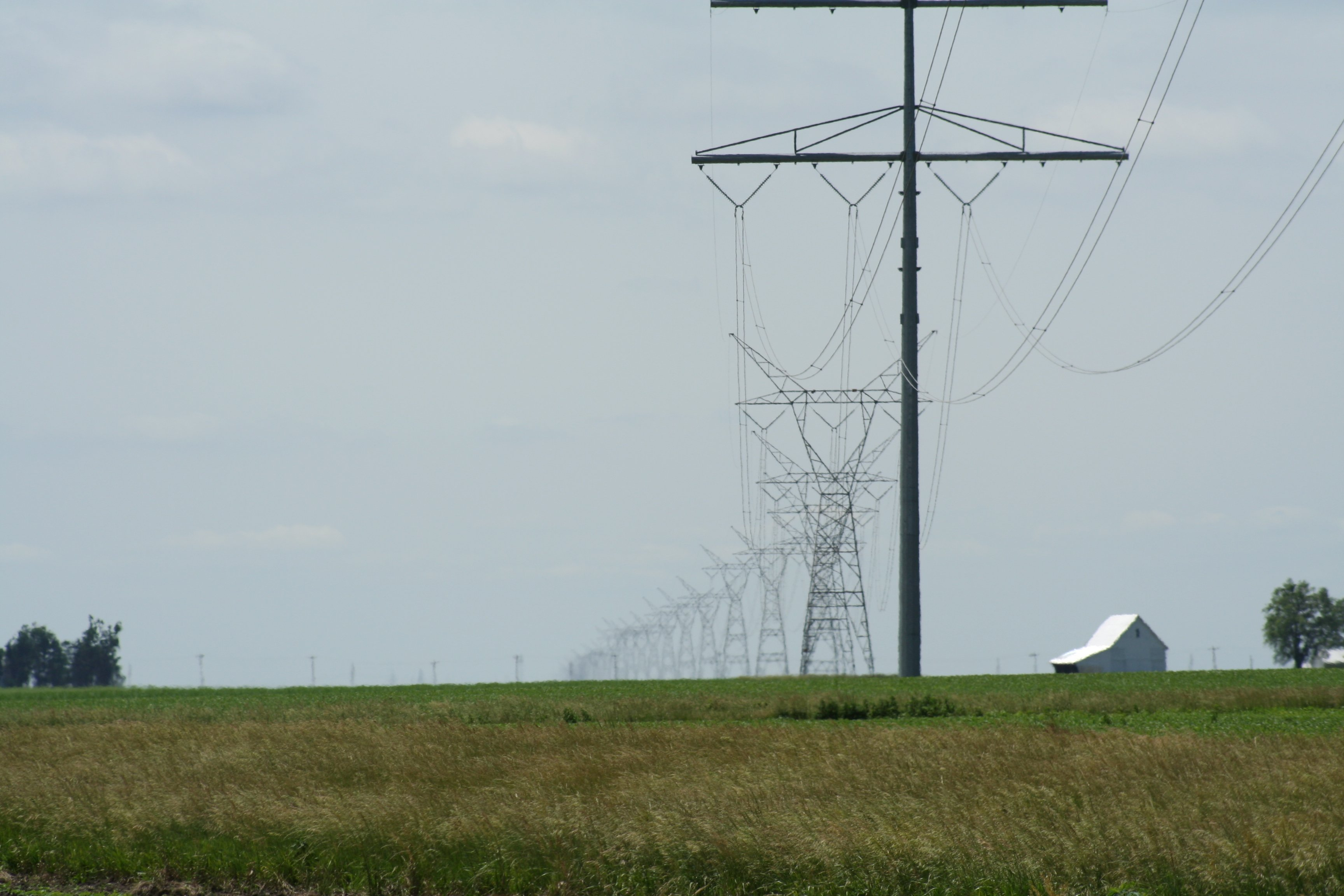 Powerlines travel south near Illiopolis, Illinois, USA.